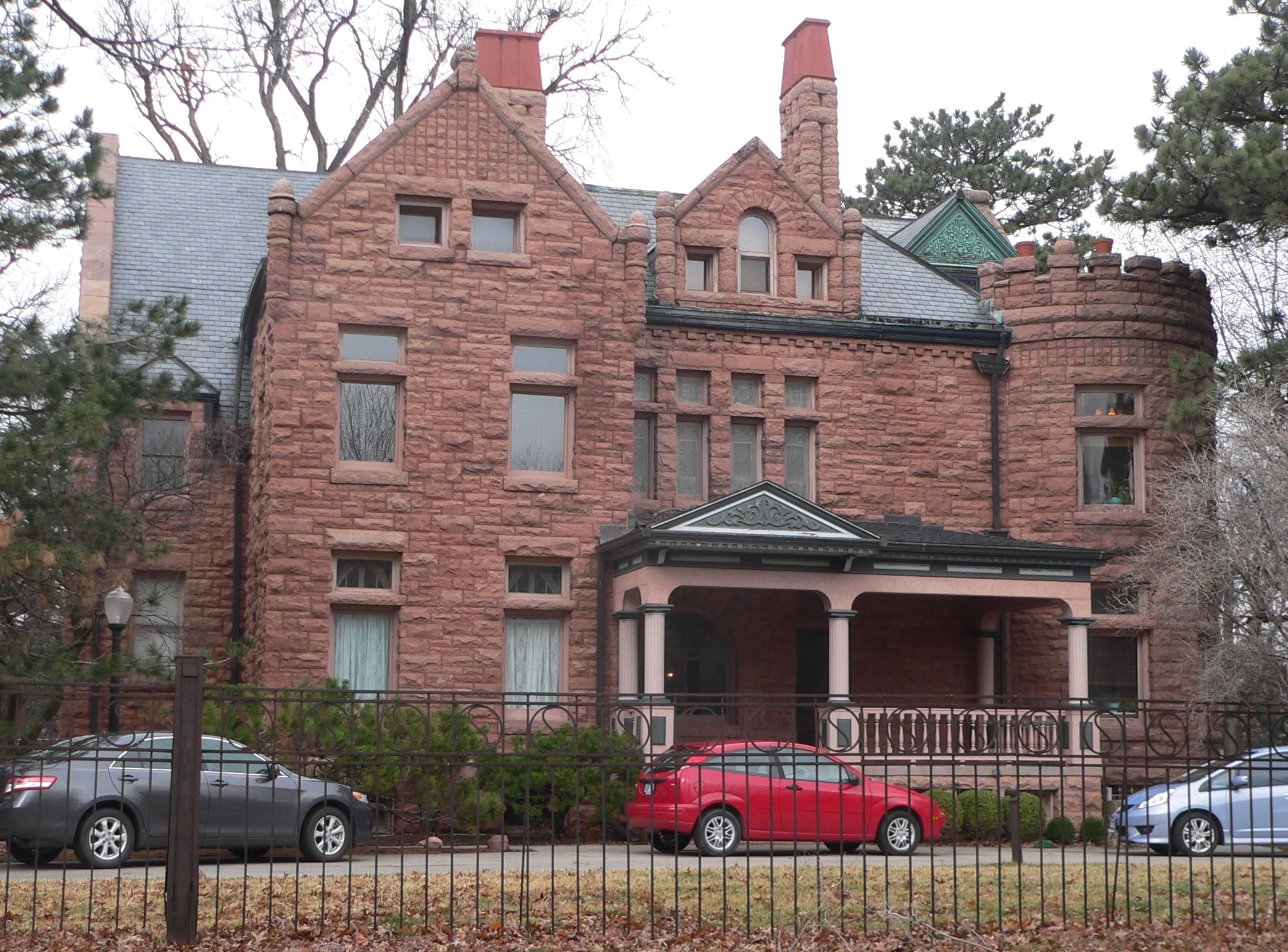 R. O. Phillips house, located at 1845 D Street in Lincoln, Nebraska; seen from the east, across 19th Street.